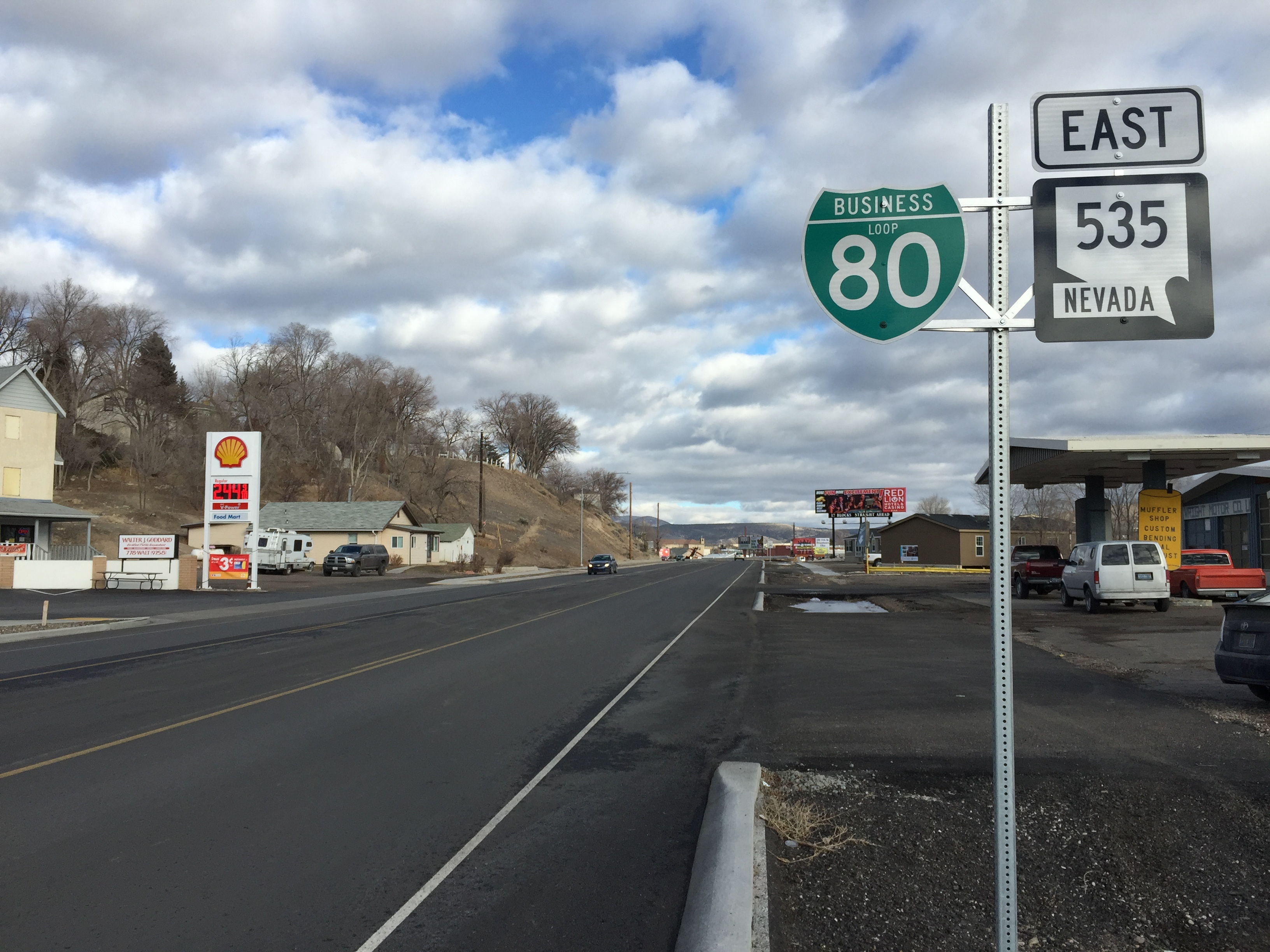 View east along Idaho Street (Nevada State Route 535 and Interstate 80 Business Loop) east of Mountain City Highway (Nevada State Route 225) in Elko, Nevada